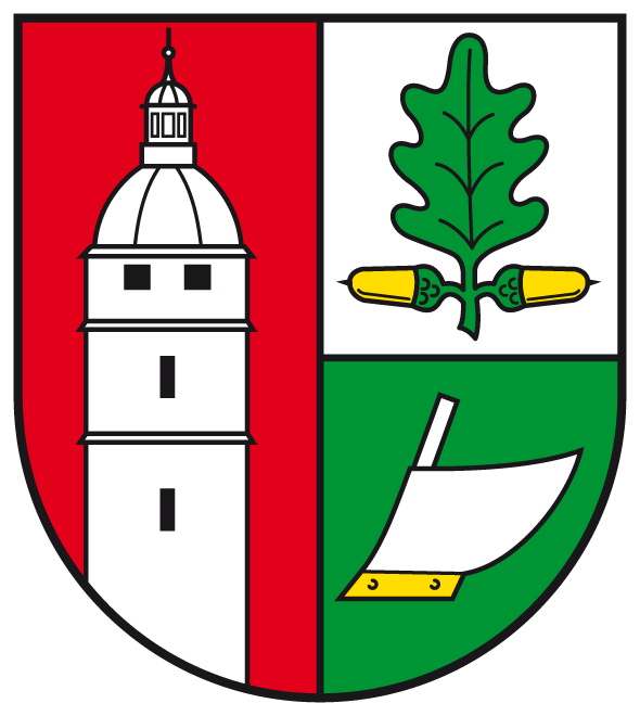 Coat of arms of Erxleben